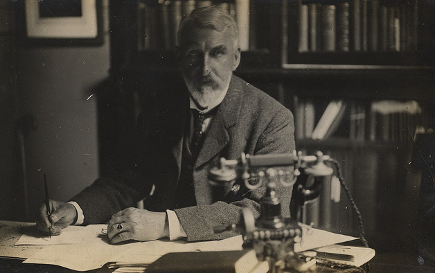 Thomas Henry Barker in his office.